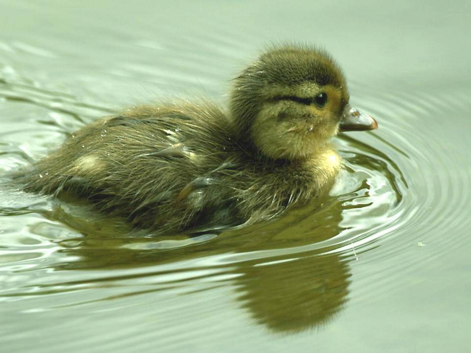 A little duckling